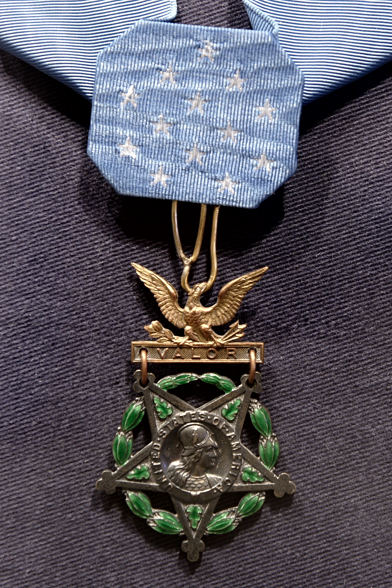 Charles Lindbergh's Medal of Honor, Missouri History Museum, St. Louis, Missouri